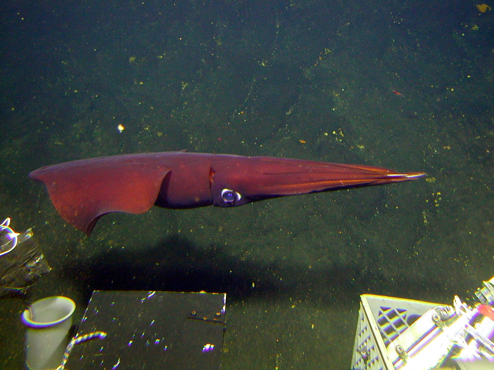 Gonatus fabricii swims by the PISCES V submersible during dive P5-625 New Zealand, Kermadec Arc